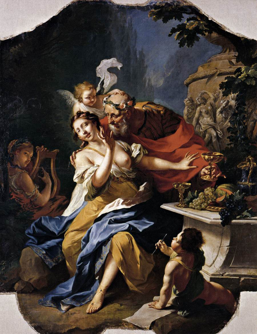 The Mocking of Anacreon, Oil on canvas, 165 x 113 cm, Staatliche Museen, Kassel